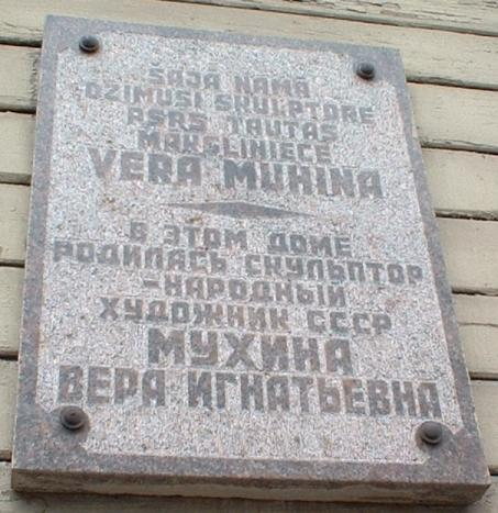 Memorial Plaque to Vera Mukhina in Riga, Turgeneva 23/25